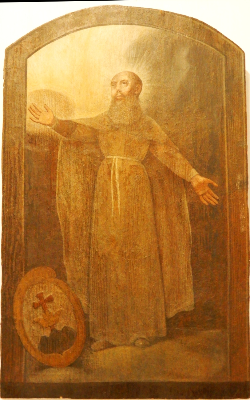 Saint Anthony Abbot, panel painting, round 1740, Červený Kláštor Monastery, Slovakia